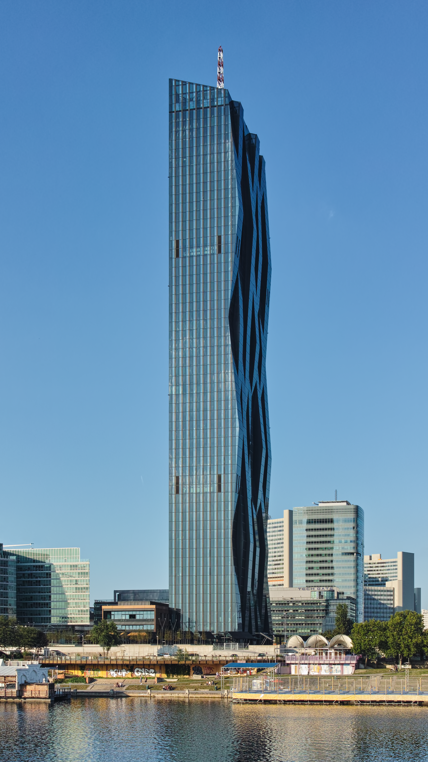 The DC Tower 1 in Vienna from the south-west on August 28, 2014 (cropped version).